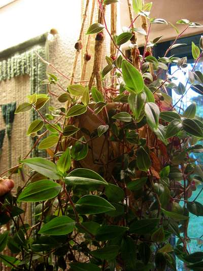 White-Flowered Wandering Jew (Tradescantia fluminensis)